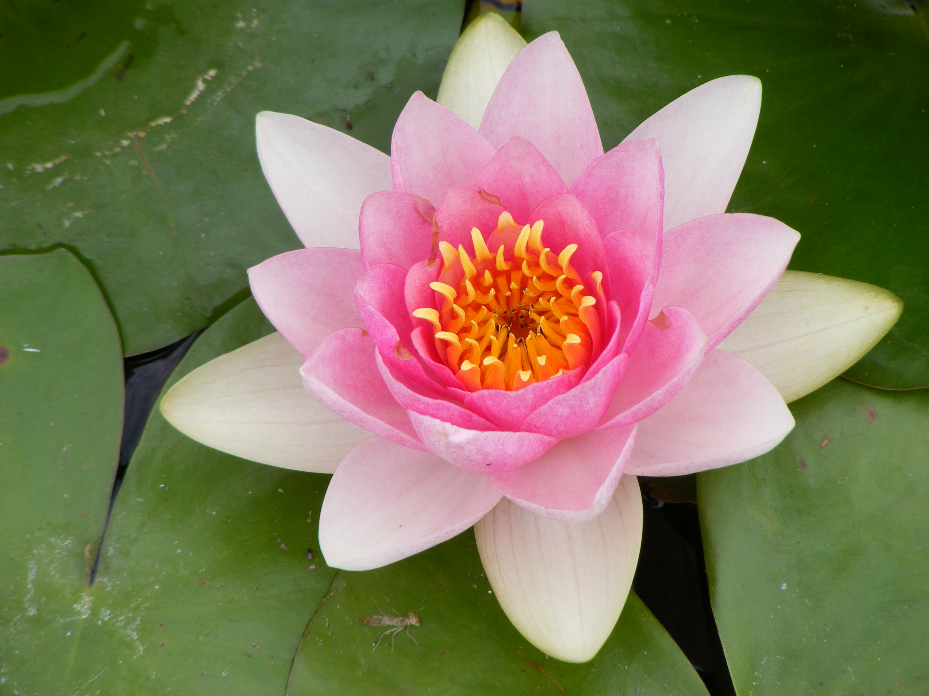 Nymphaea 'Masaniello' cultivar at Botanic Garden, Adelaide, South Australia